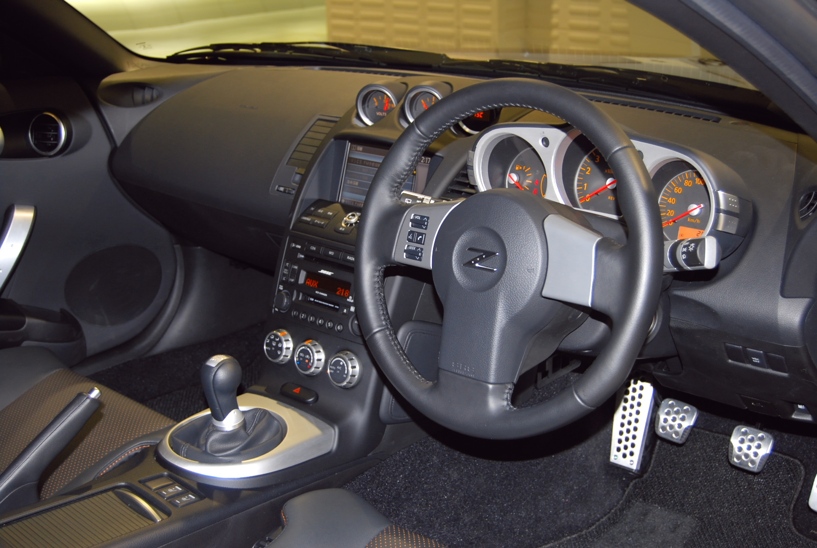 2008 Nissan Fairlady Z Coupe Interior